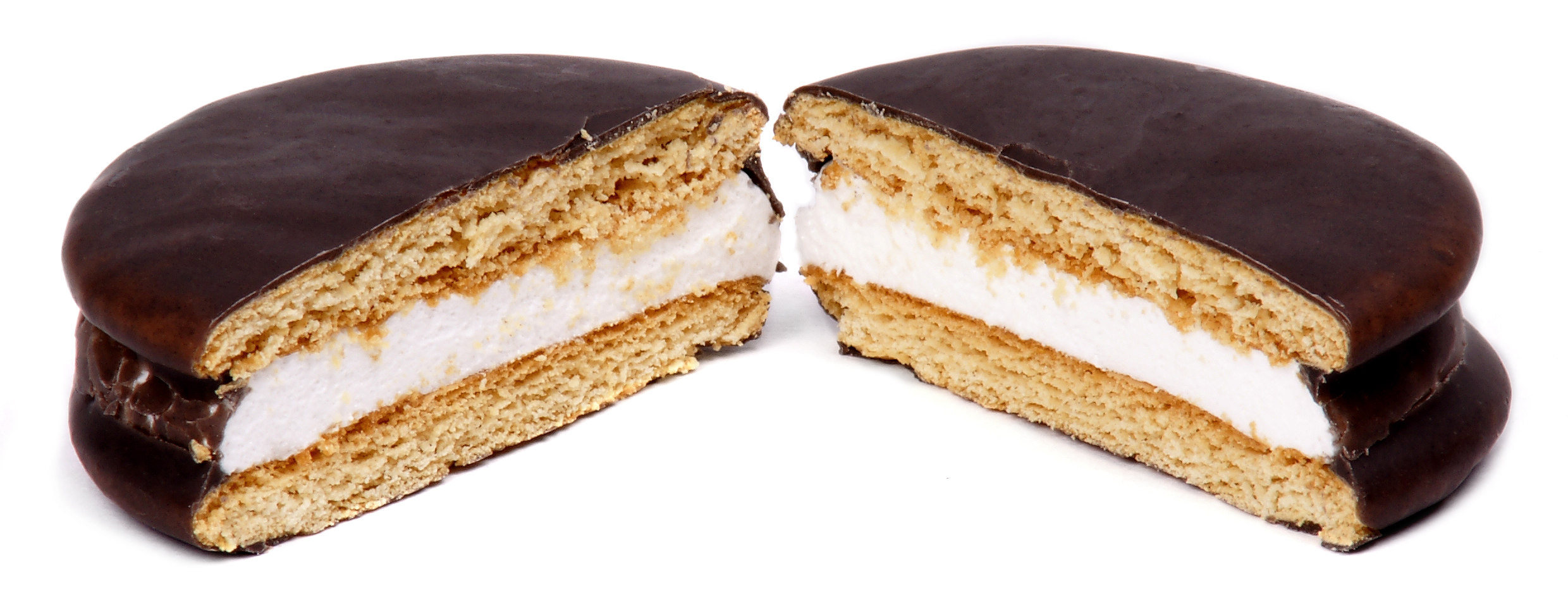 A Moon Pie made by the Chattanooga Bakery. Please check my Wikimedia User Gallery for all of my public domain works.